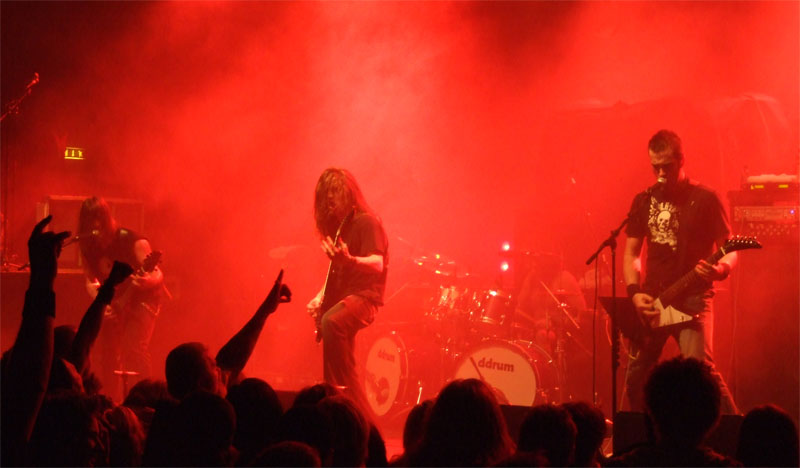 Thrash metal-band Annihilator playing live at Sentrum Scene in Oslo, Norway. From L to R: Jeff Waters, Brian Daemon and Dave Padden. Alex Landenburg on drums in the back.